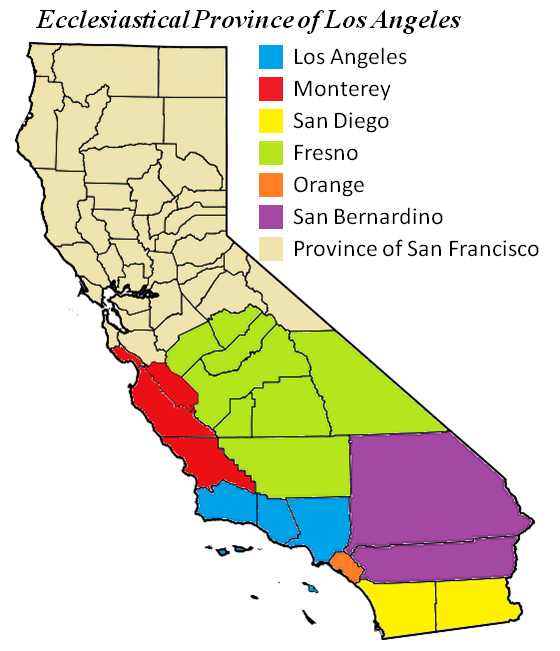 The Ecclesiastical Province of Los Angeles in the Catholic Church encompasses the six dioceses in Southern California.